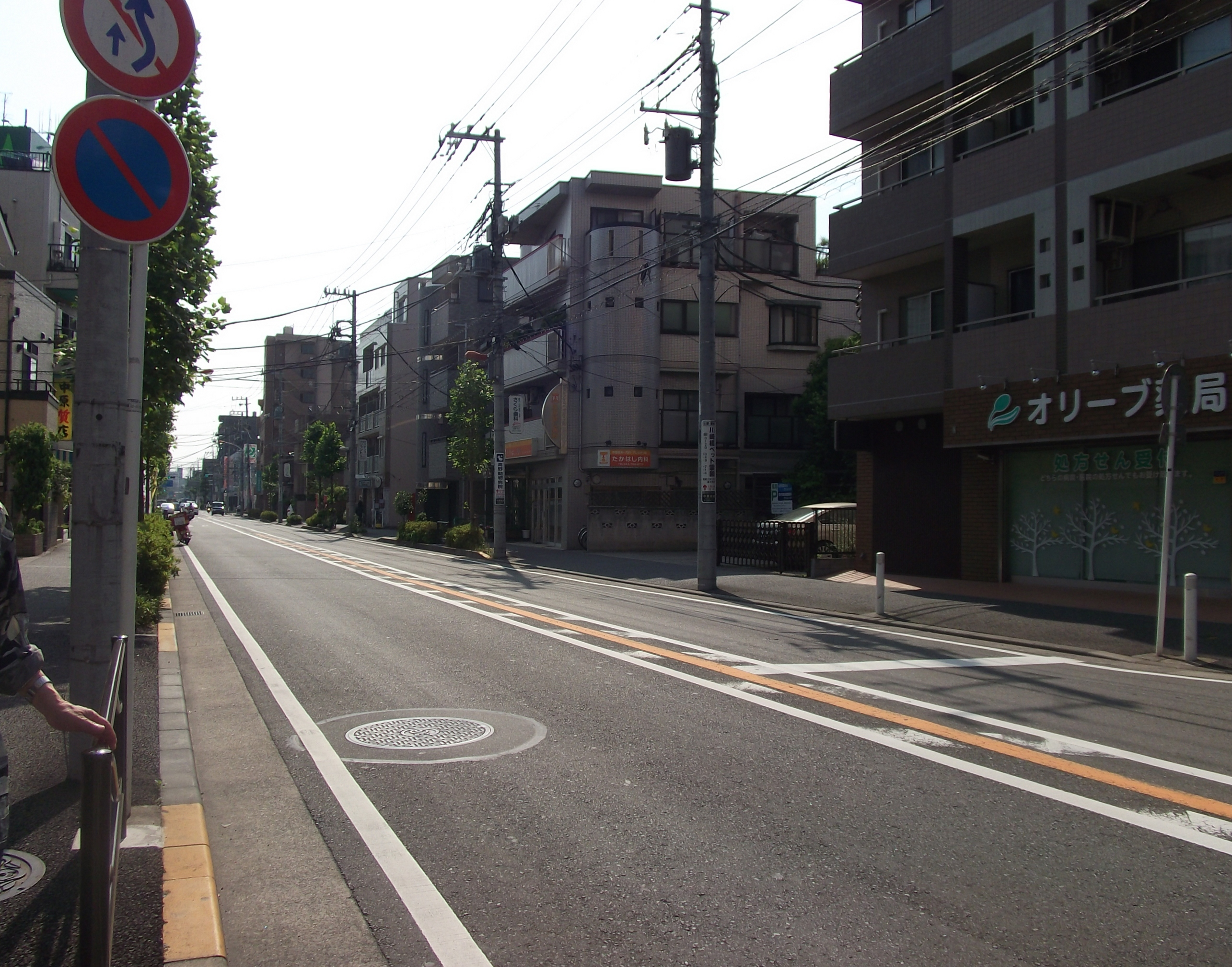 Kanagawa Route 45 at Shimo-kodanaka, Nakahara-ku, Kawasaki.